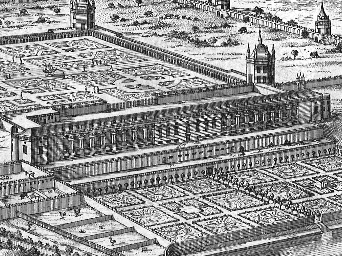 View of Neugebäude Palace near Vienna